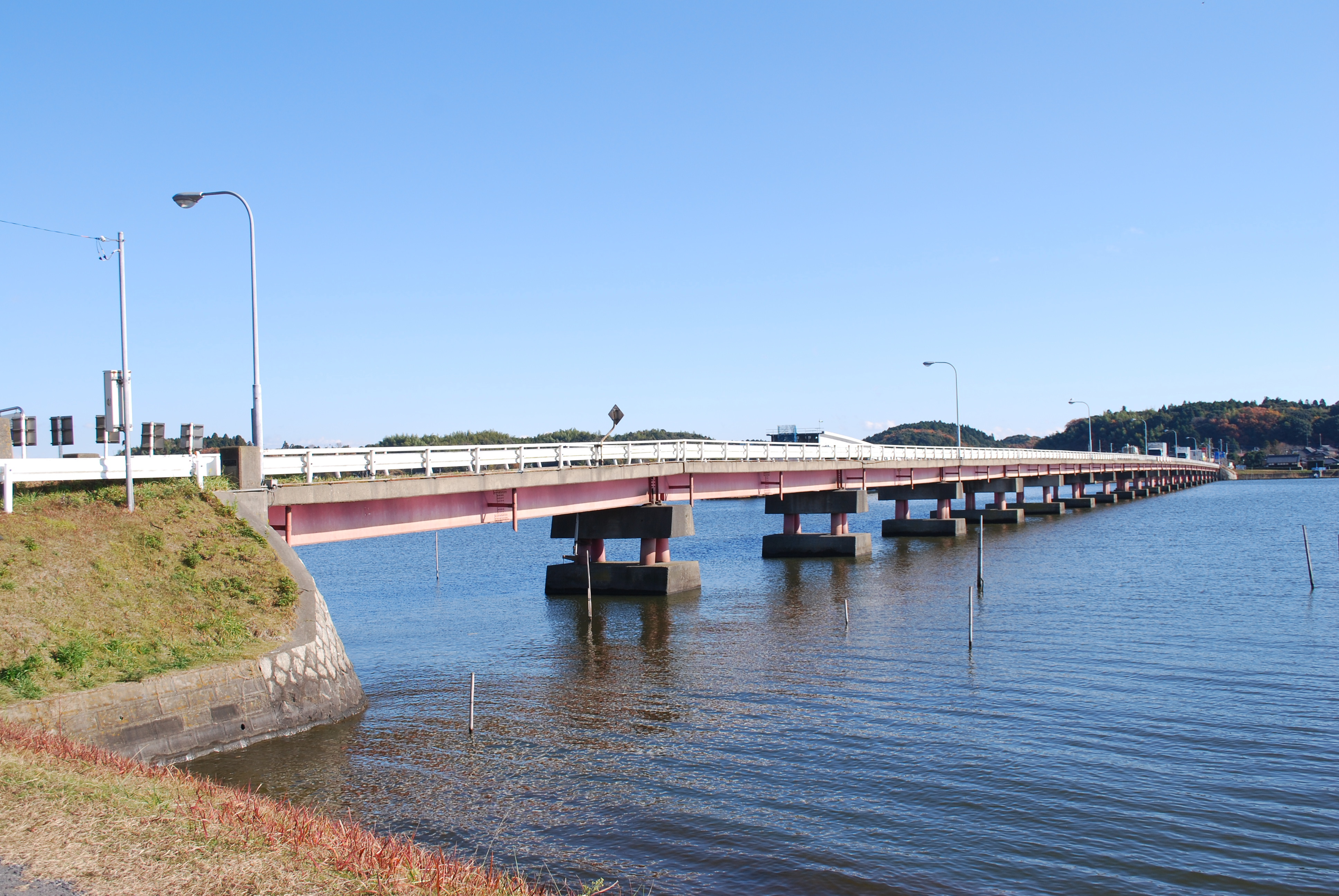 Single-lane Rokko Bridge (Rokko ohashi) over the Kitaura lake in Namegata and Hokota Cities, Ibaraki Prefecture, Japan